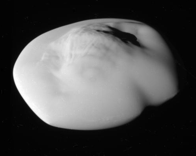 Uploader's notes: The original NASA image has been modified by cropping, removing artifacts and increasing linear pixel dimensions by a factor of 1.295. Original caption released with image: This raw, unprocessed image of Atlas was taken on April 12, 2017 and received on Earth April 13, 2017. The camera was pointing toward Atlas at approximately kilometers away, and the image was taken using the CL1 and IR1 filters. The image has not been validated or calibrated. A validated/calibrated image will be archived with the Planetary Data System in 2018. The Cassini Solstice Mission is a joint United States and European endeavor. The Jet Propulsion Laboratory, a division of the California Institute of Technology in Pasadena, manages the mission for NASA's Science Mission Directorate, Washington, D.C. The Cassini orbiter was designed, developed and assembled at JPL. The imaging team consists of scientists from the US, England, France, and Germany. The imaging operations center and team lead (Dr. C. Porco) are based at the Space Science Institute in Boulder, Colo. For more information about the Cassini Solstice Mission visit and